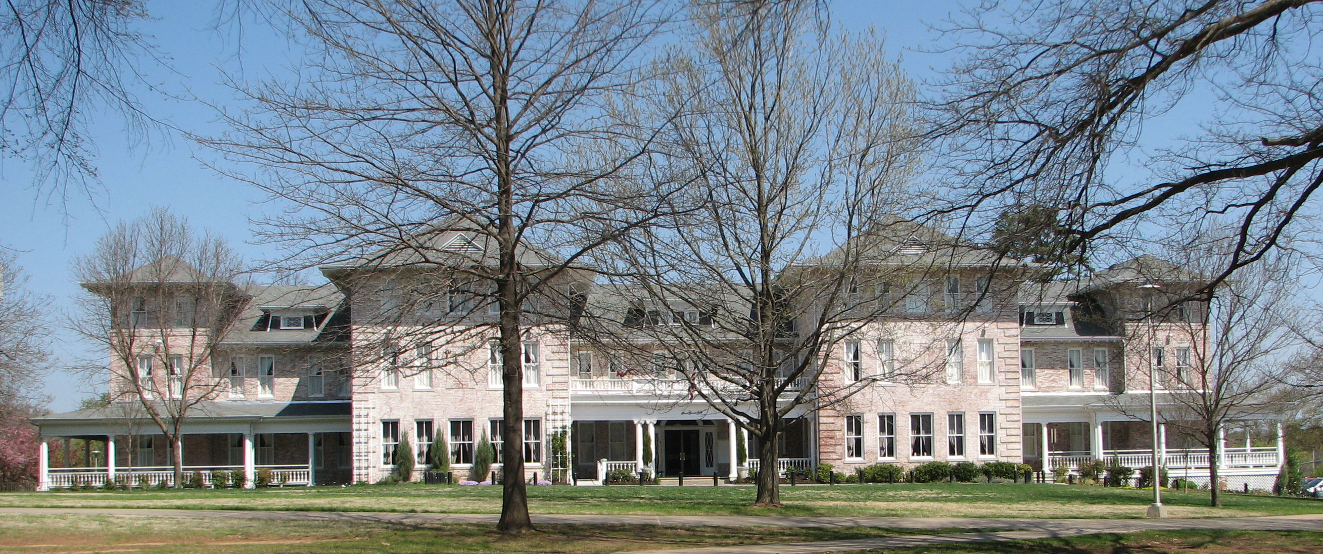 Picture of Carnall Hall at the University of Arkansas, former women's dormitory, now a restaurant and inn.